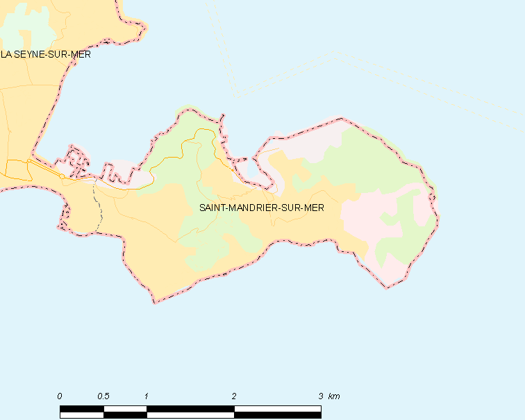 Map of French municipality Saint-Mandrier-sur-Mer